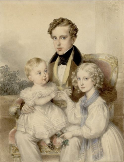 Portrait of the Duke of Reichstadt with archduke Franz Joseph and princess Maria Carolina of the Two-Siciles.